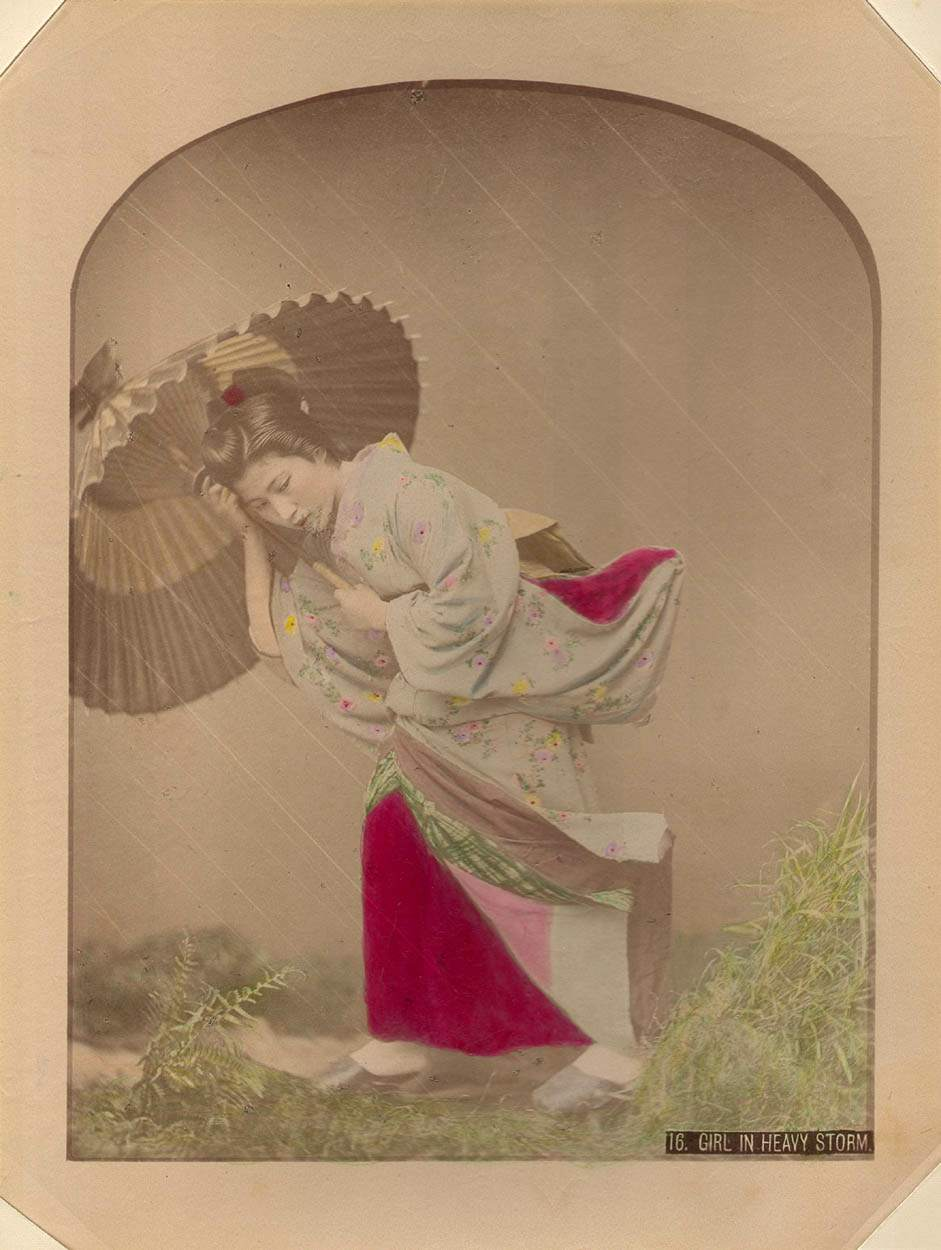 Albumen